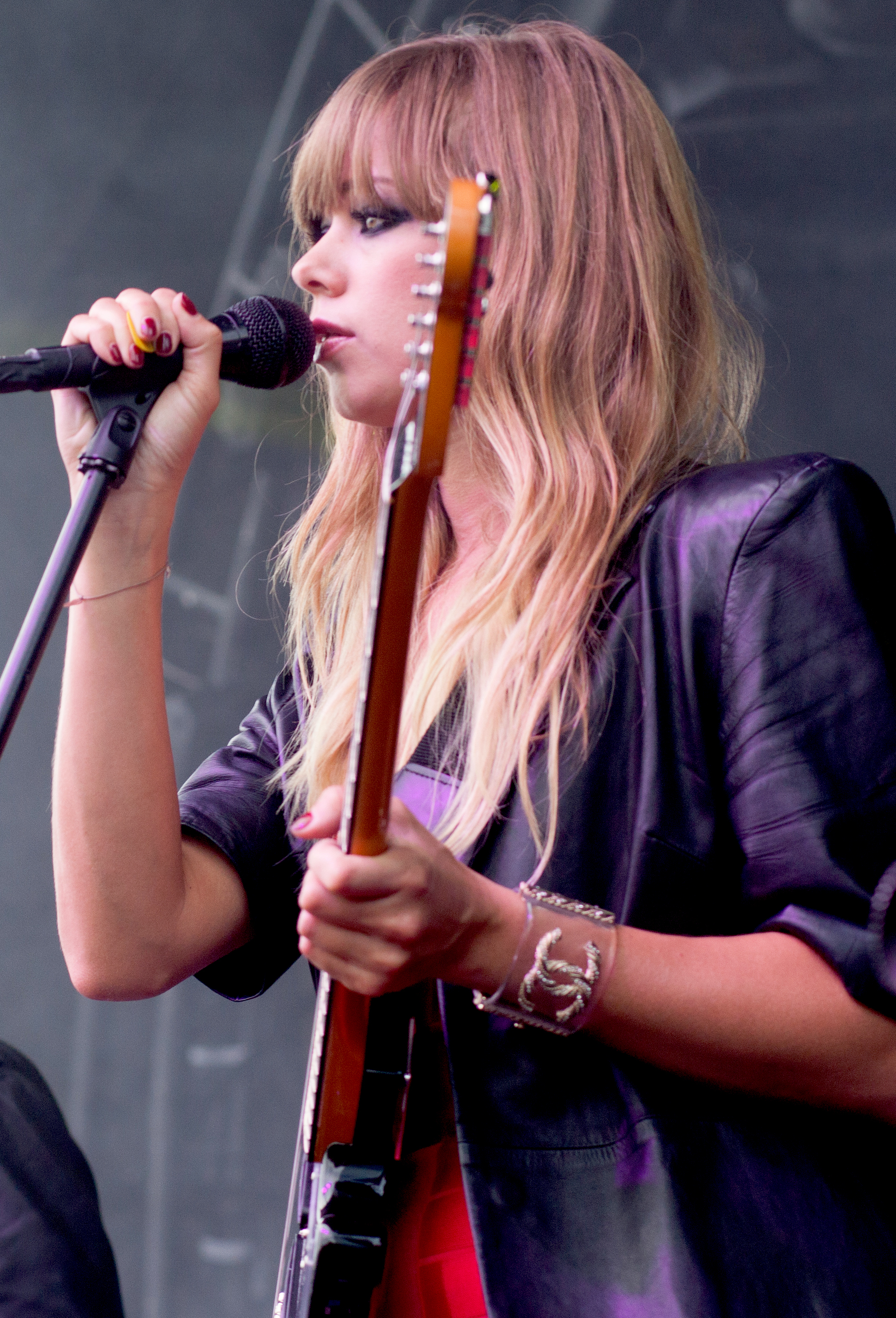 Ruth Radelet of Chromatics live at South by Southwest, 2013